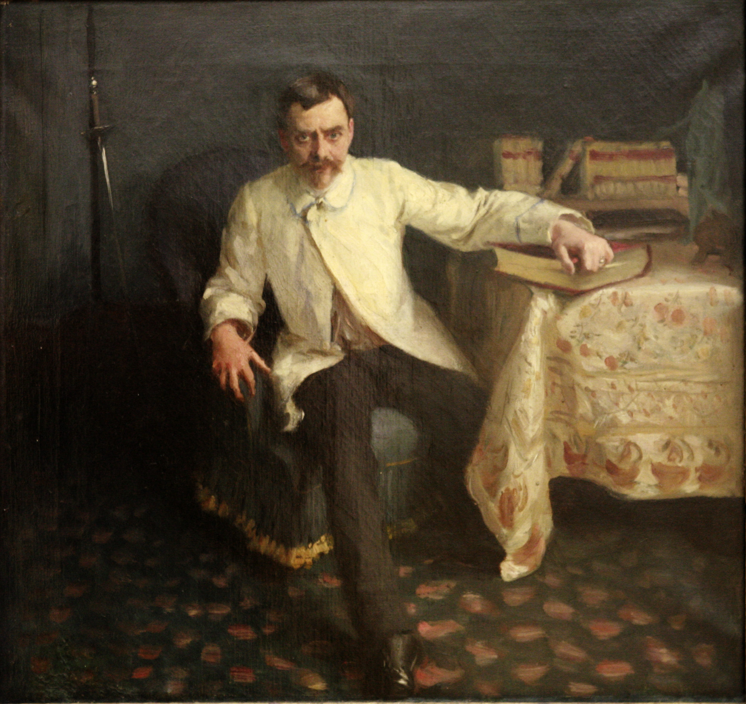 Arsène Vigeant, by John Singer Sargent Oil on canvas On display at Metz museum, access number 30